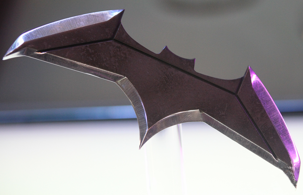 Comic Con Experience 2015